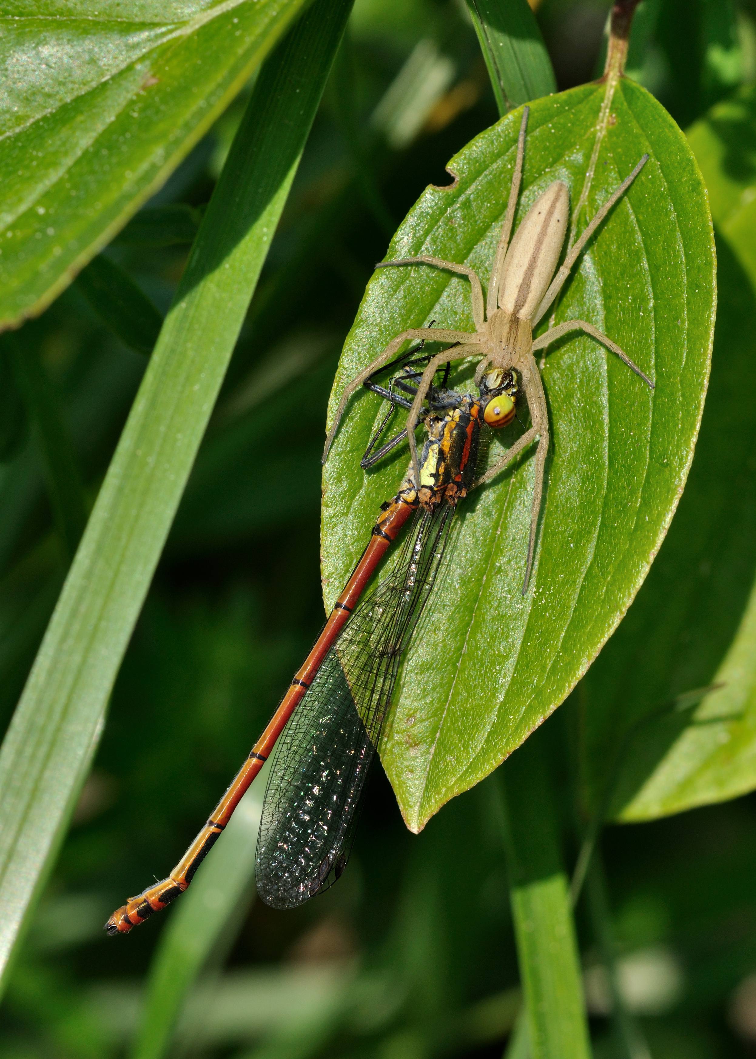 A female Running Crab Spider (Tibellus oblongus) captures a male Large Red Damselfly (Pyrrhosoma nymphula) near the old airstrip, Frankfurt, Germany.